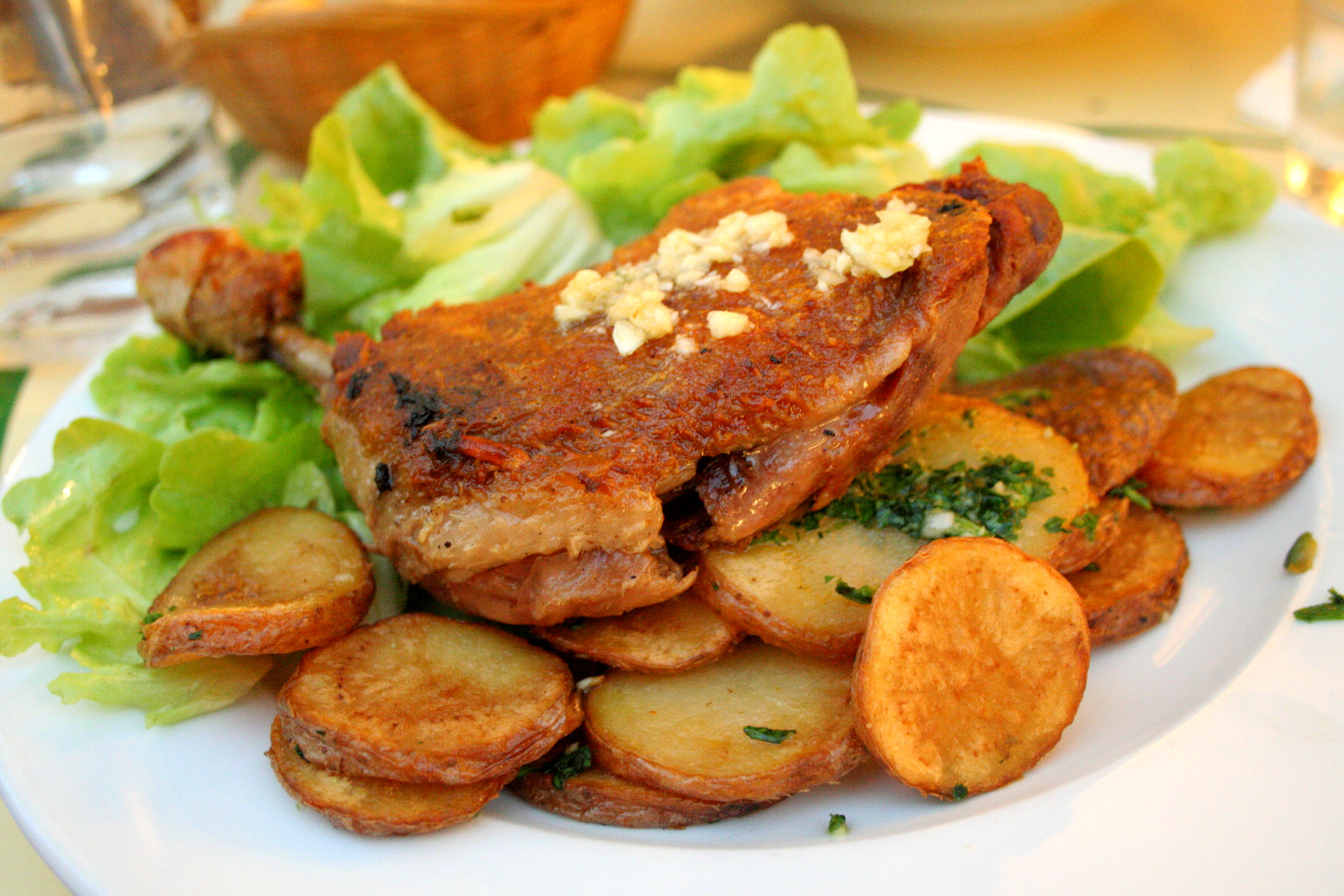 Confit de canard from Café du Marché in Paris. Author: Robyn Lee (user roboppy) Date: October 16, 2006 URL: Uploaded by author